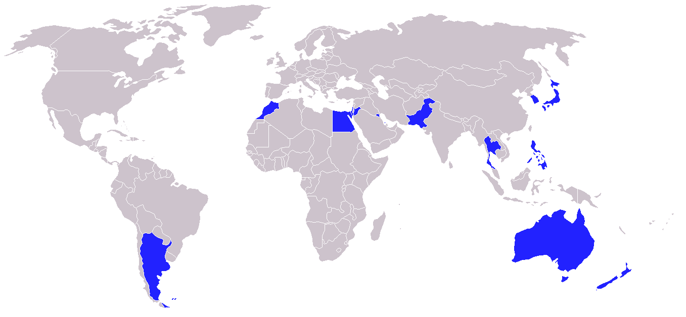 Map of the world showing countries designated by the United States as major non-NATO allies as of late 2004. Compiled primarily from Image:BlankMap-World.png